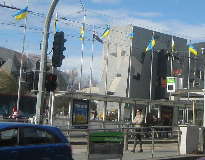 Ukrainian flags on Federation square. Melbourne